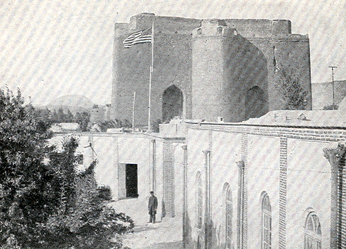 American flag flies in Tabriz near to Arg-e Tabriz, Iran (Persia), during Persian constitutional revolution